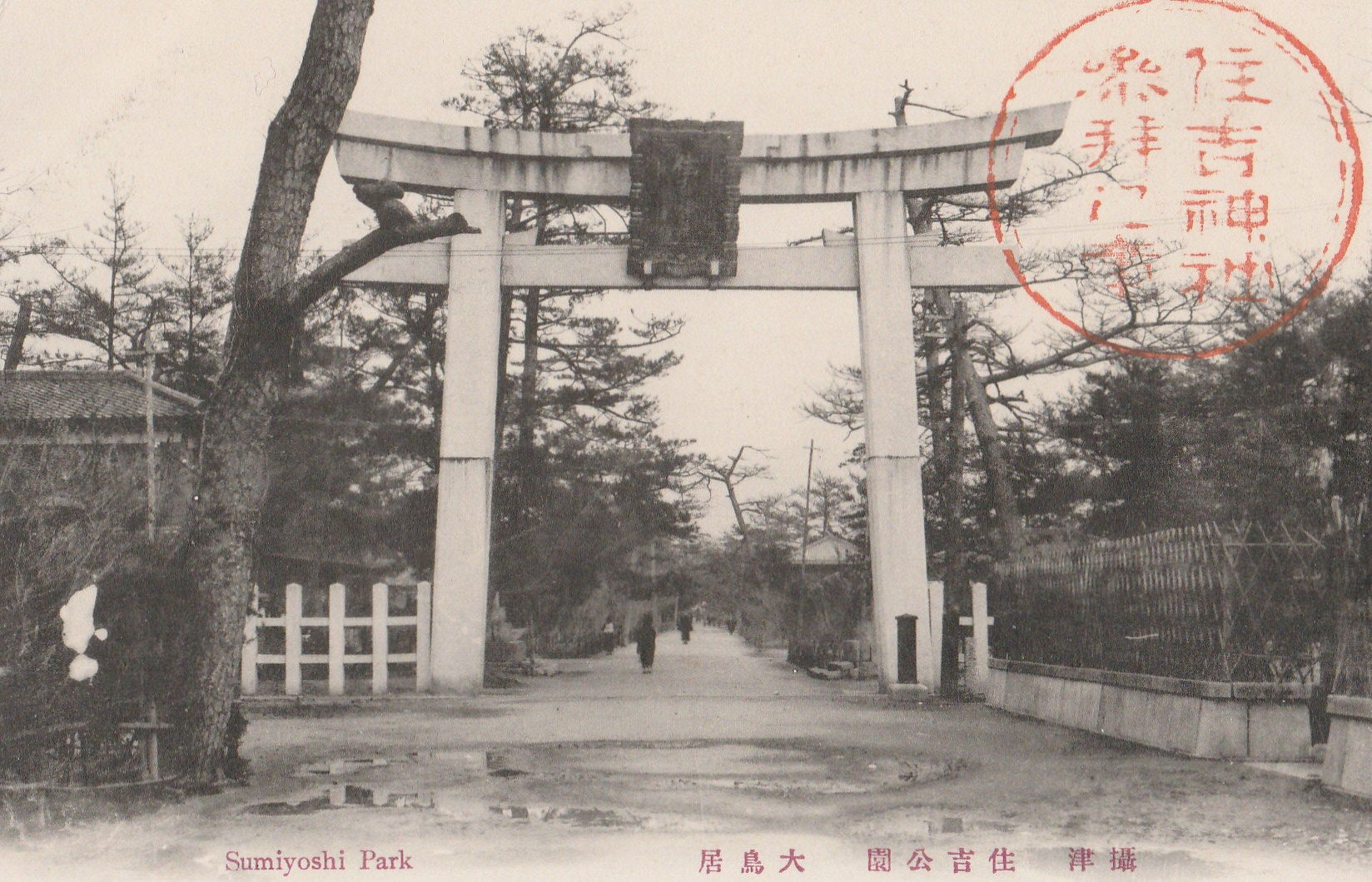 Japanese postcard showing the big torii in Sumiyoshi Park in Osaka